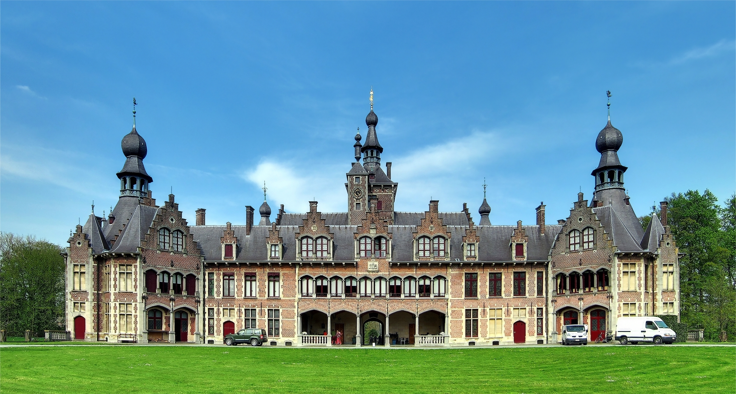 View of Ooidonk Castle, East Flanders, Belgium, from the courtyard, rebuilt in Renaissance style at the end of 16th century.